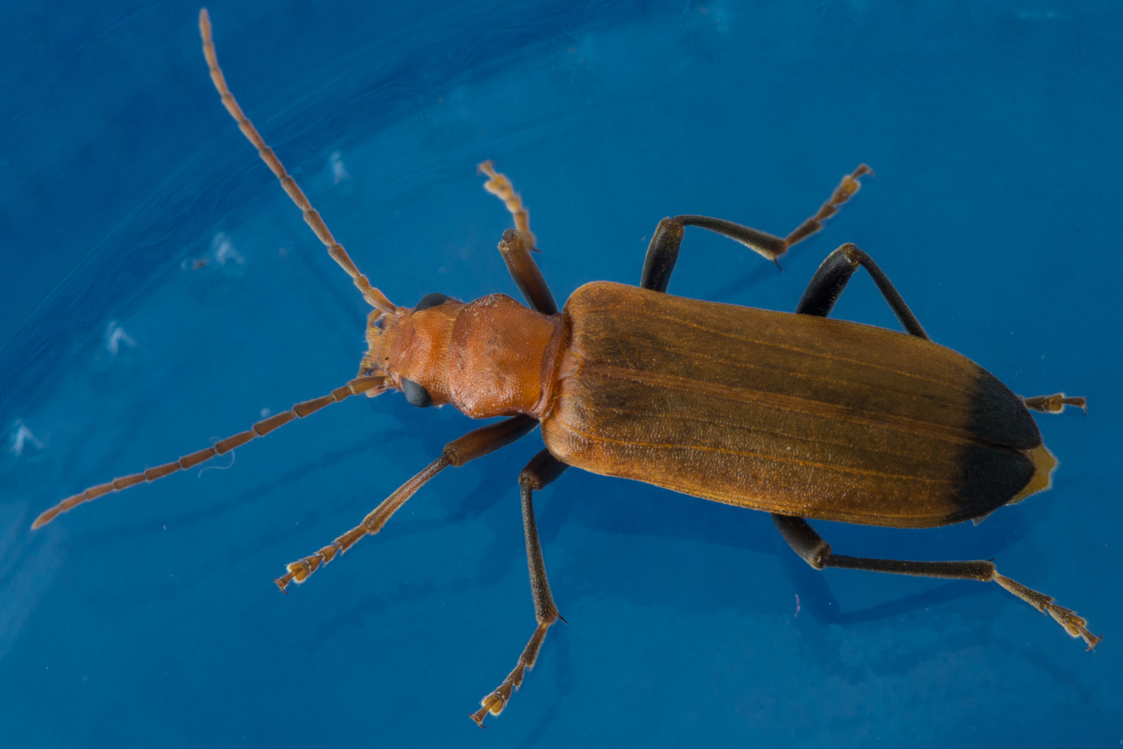 Nacerdes melanura (Linnaeus, 1758) det. F. Vitali. This species is very common in NW Spain in Spring and Summer.